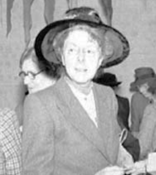 Lady Romola Russell, owner of Chorleywood House